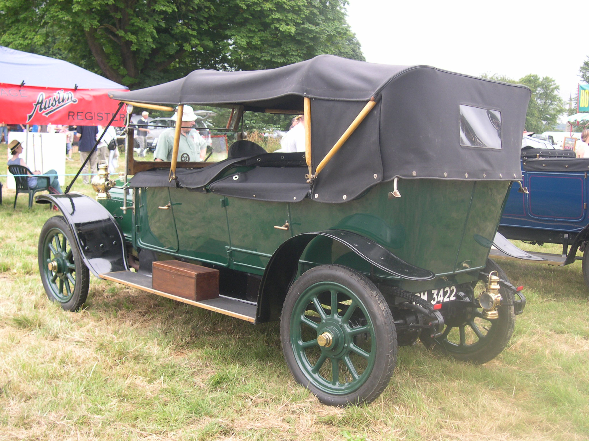 1913 Austin 10hp Sirdar Ashover Derbyshire 2006 Year 1913 Reg BM 3422 Car 10605 Engine 10694 Body Sirdar phaeton Info from The Edwardian Austin, Ian Dimmer